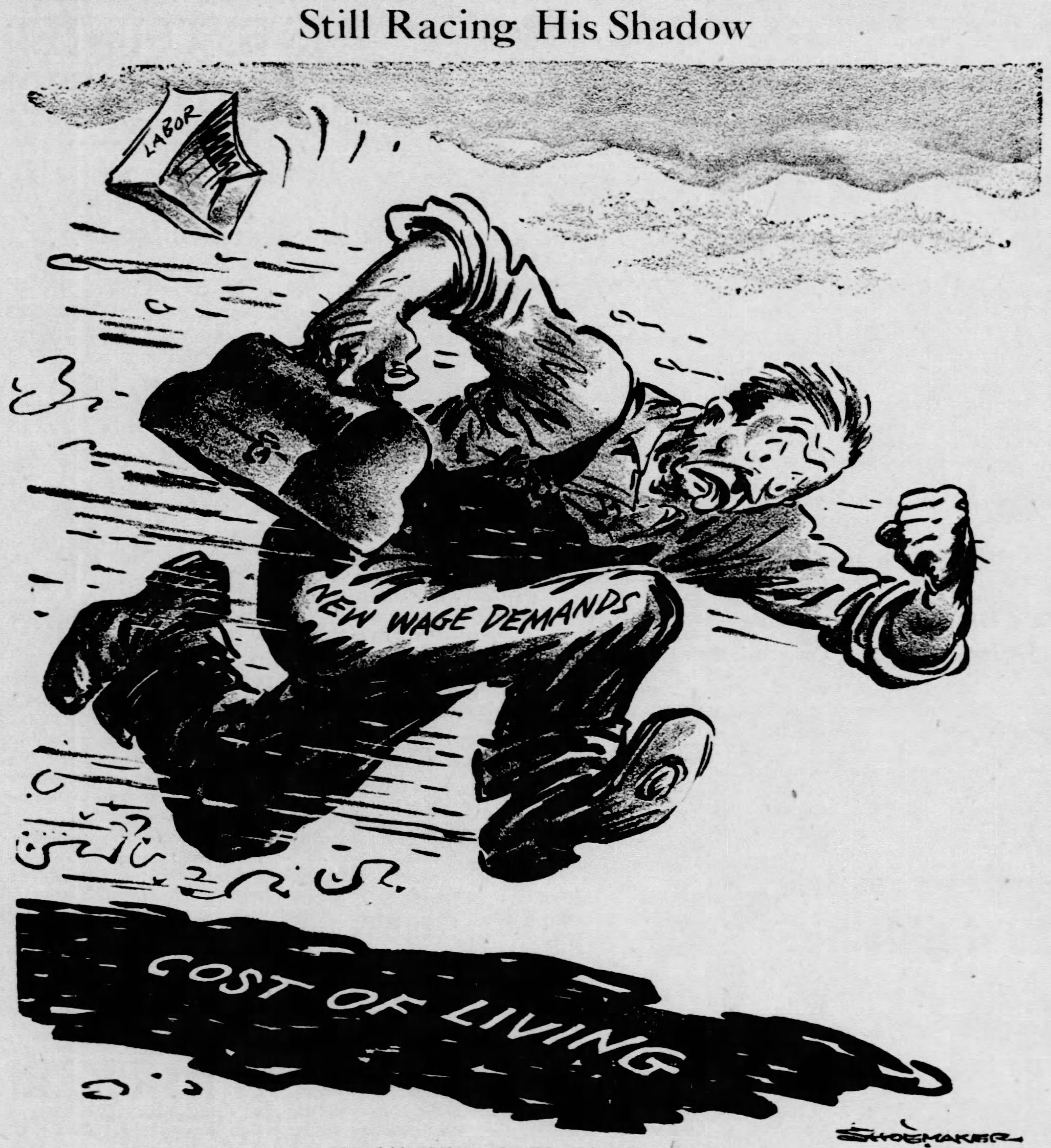 "Still Racing His Shadow", an editorial cartoon commenting on the inability of wage growth to keep pace with the rising cost of living. Winner of the 1947 Pulitzer Prize for Editorial Cartooning.